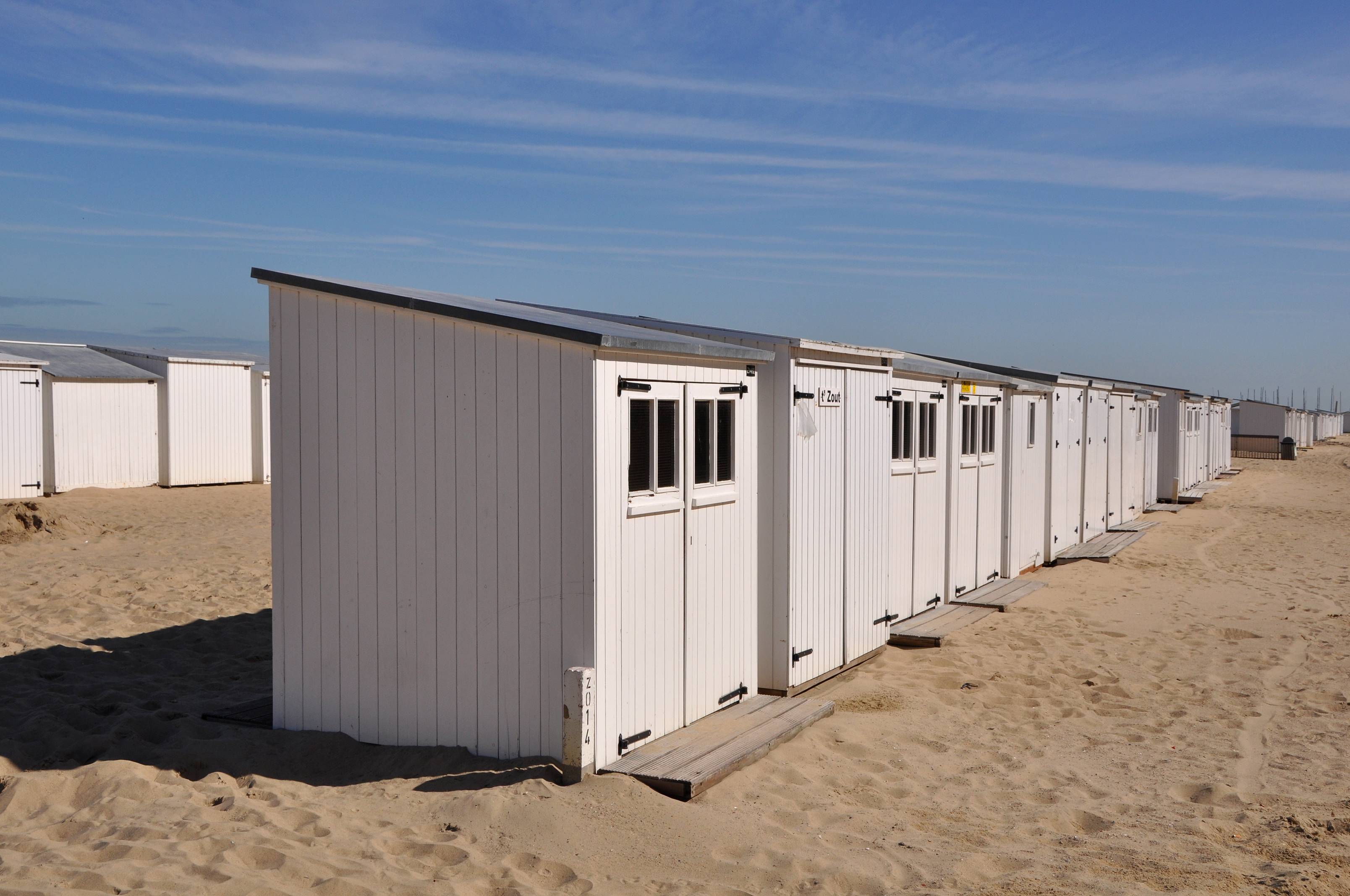 Knokke (Belgium): beach cabins